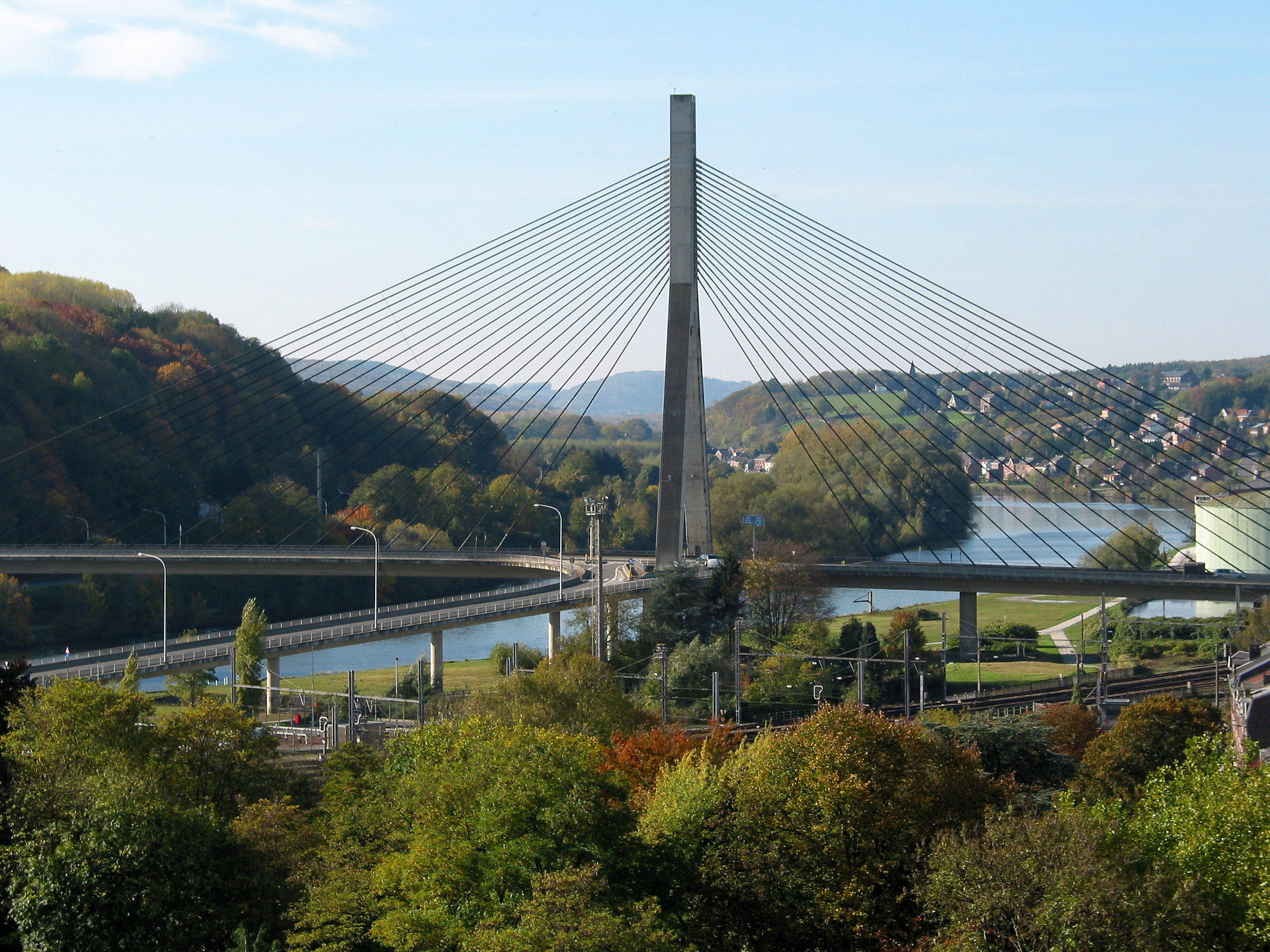 Wanze (Belgium), the "Père Pire" bridge , the Meuse river and the sugar refinery.